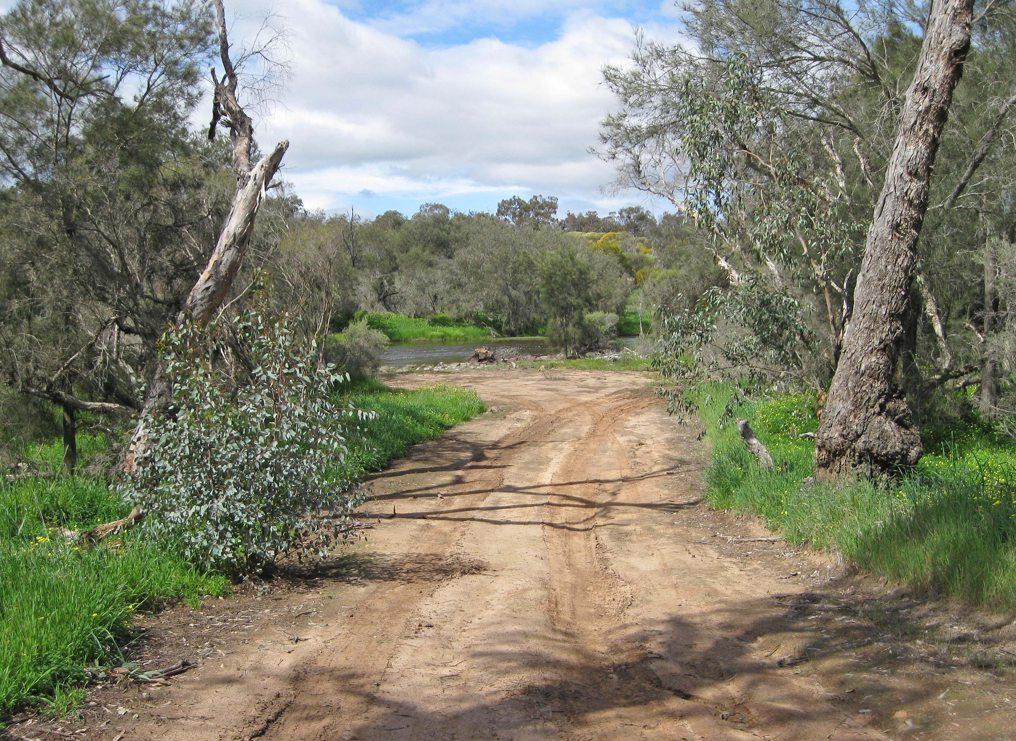 Remnants of the right bank approach to the ford crossing of the Avon River, West Toodyay, Western Australia.